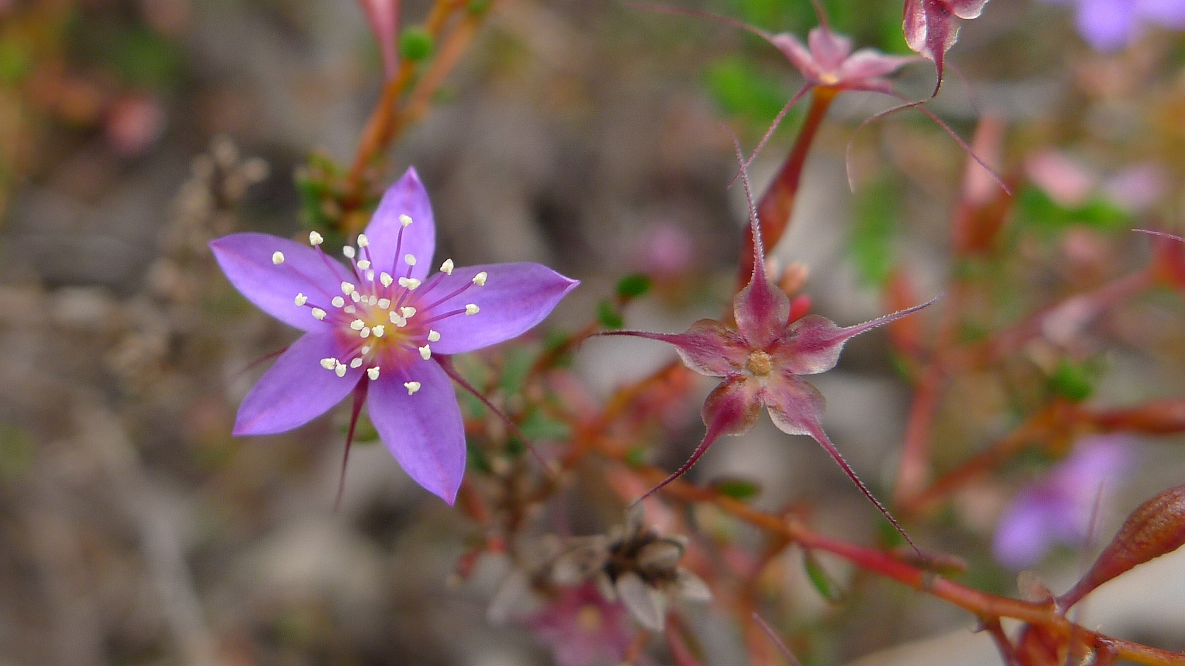 Purple Starflower and skeleton, a species of Calytrix. Jarrahdale State Forest, Western Australia, November 2011.